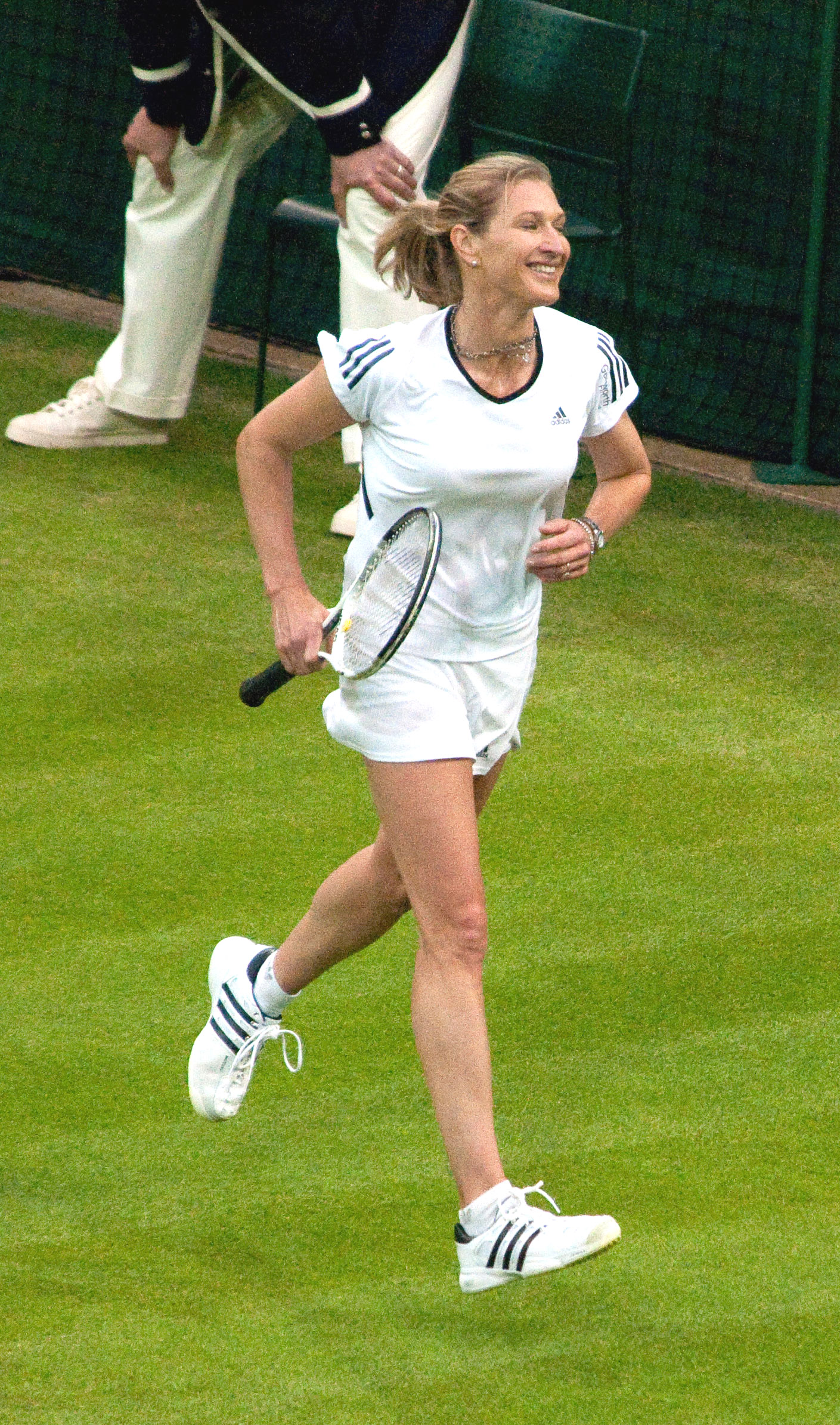 Former World No. 1 German female tennis player Steffi Graf during the special event “A Centre Court Celebration” (event was designed to test a new roof and air management system with live tennis in front of a capacity crowd of 15,000 – Andre Agassi and Steffi Graf played vs. Tim Henman and Kim Clijsters)